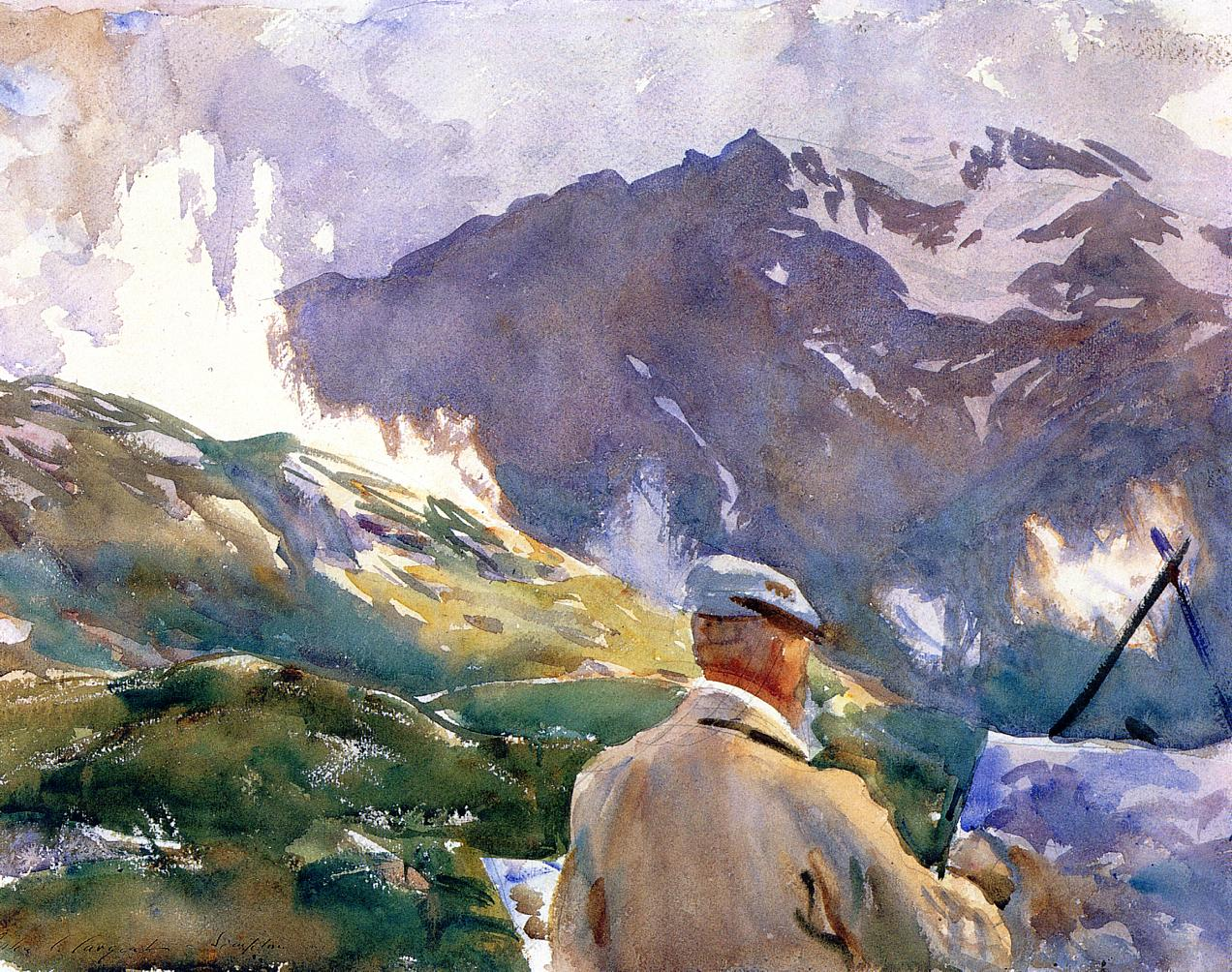 "Artist in the Simplon," watercolor, by the American peintre John Singer Sargent. Courtesy of the Fogg Houat of Art.